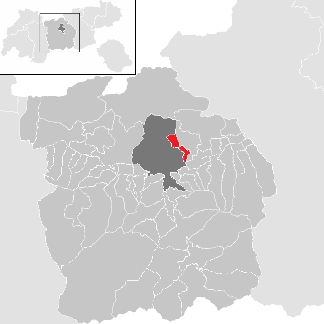 District Innsbruck Land